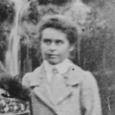 School of irish learning 1913 - copy - notably Maud Joynt was standing in the back row on the far right. (Image: RIA C/24/5/C)